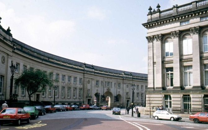 Bolton Civic Centre (Le Mans Crescent), Bolton, Greater Manchester, England. Photographed summer 1994 by Austen Redman. Scan from slide.